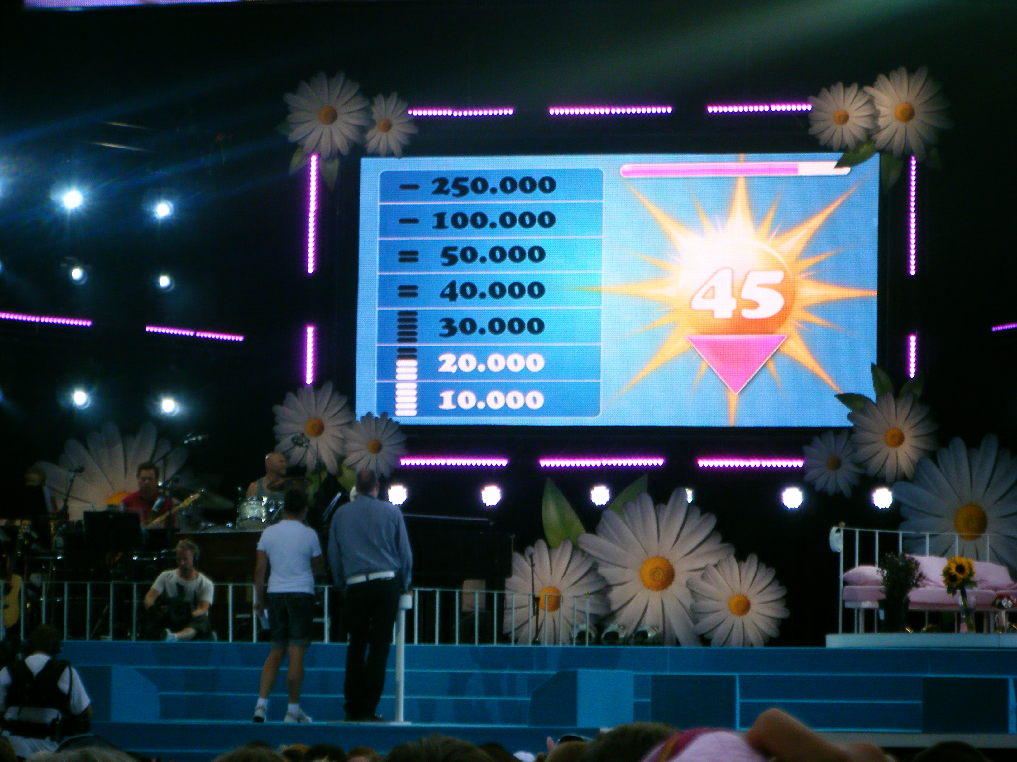 SommarBingo in Lotta på Liseberg, Gothenburg, Sweden